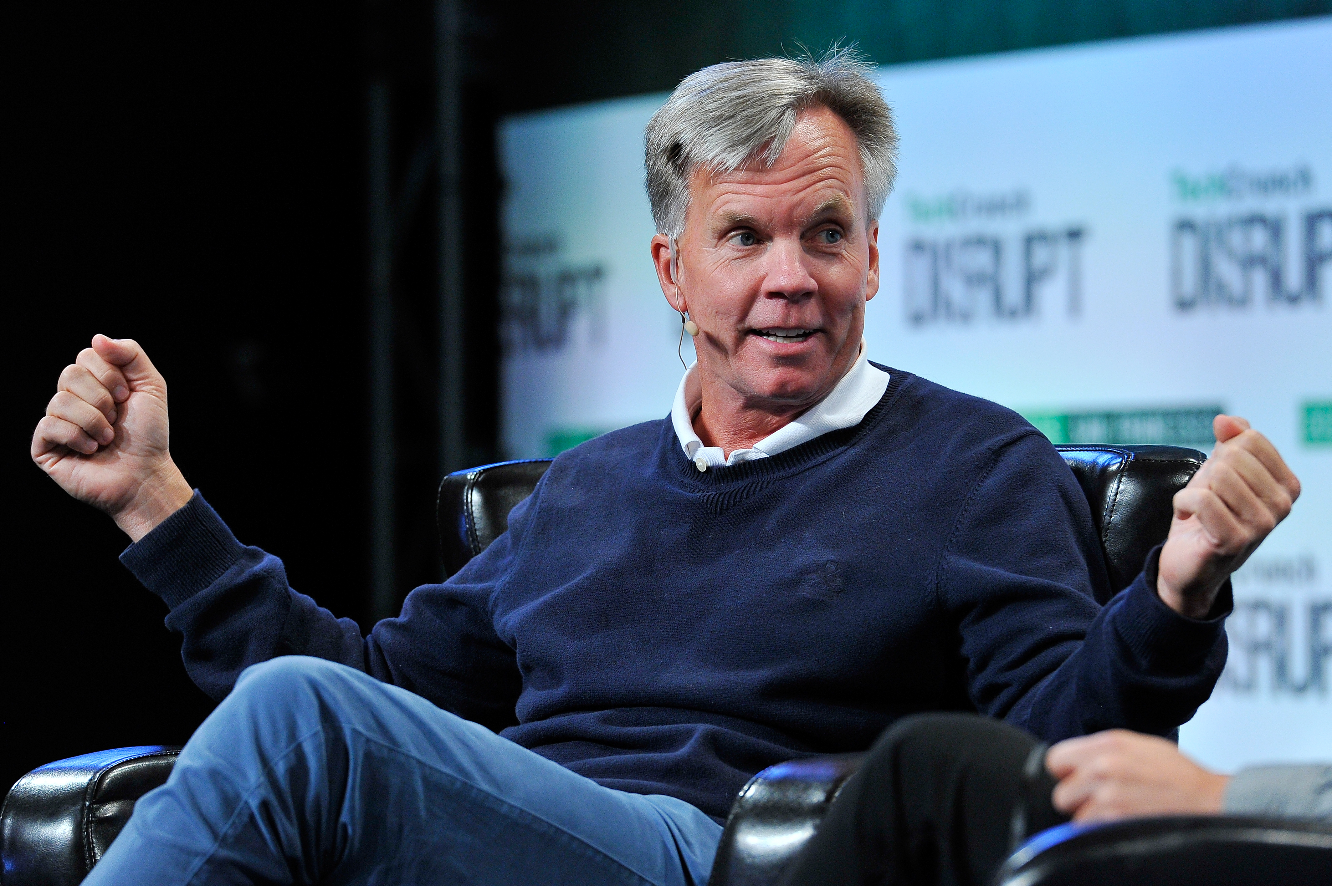 Ron Johnson of Enjoy speaks onstage during TechCrunch Disrupt SF 2015 at Pier 70 on September 23, 2015 in San Francisco, California.